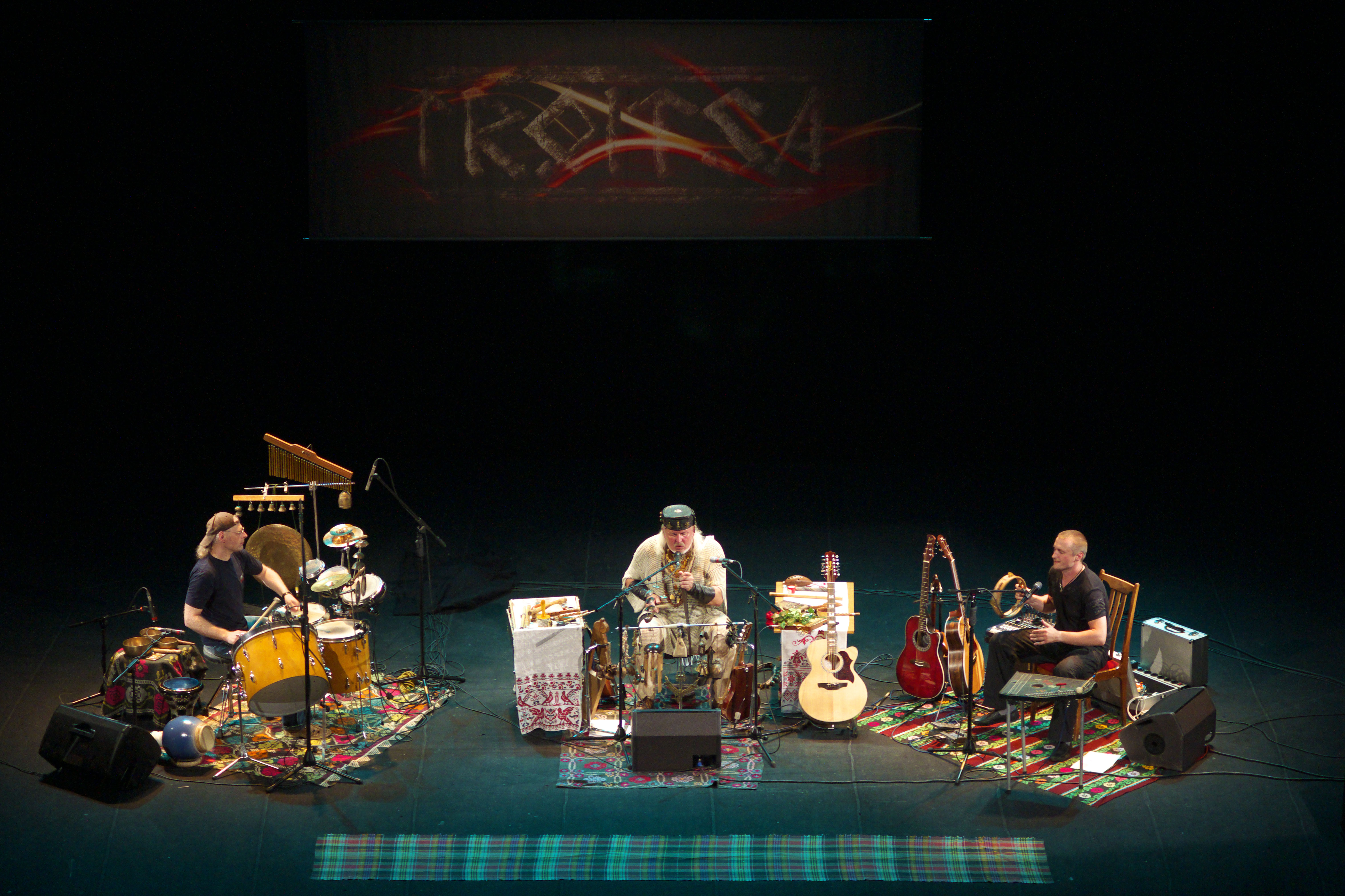 Belarusian ethno-trio Troitsa